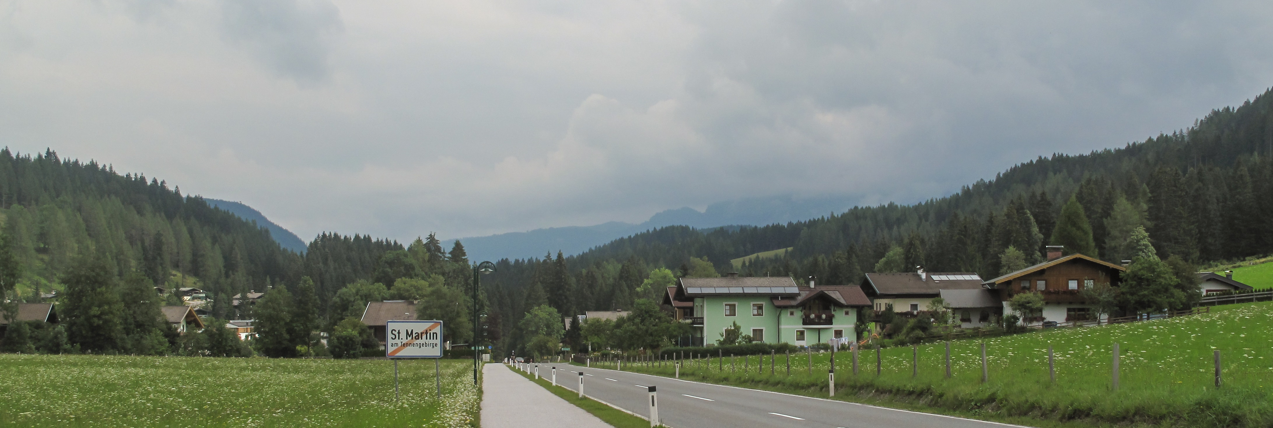 Sankt Martin am Tennengebirge, road-panorama